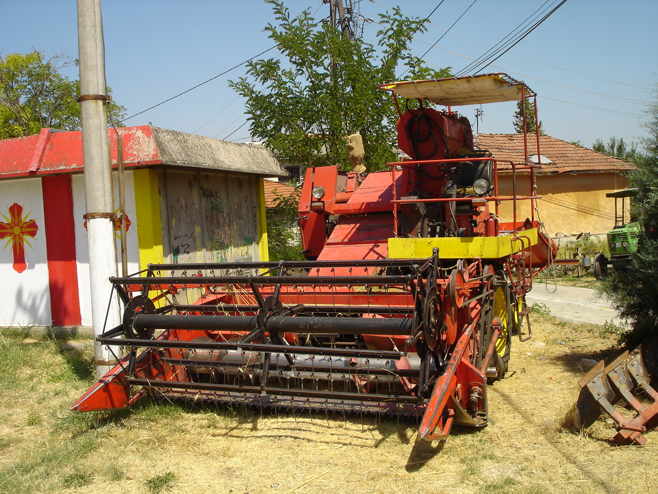 Combine harvester in Drachevo, Macedonia